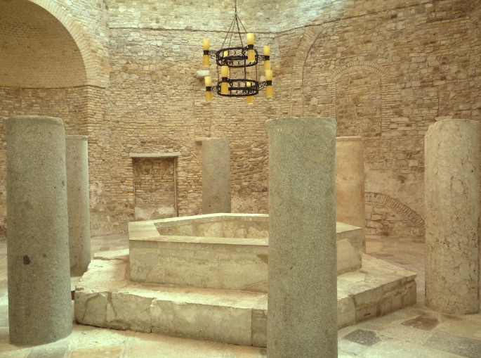 Inside the baptistery of Aquileia's basilica